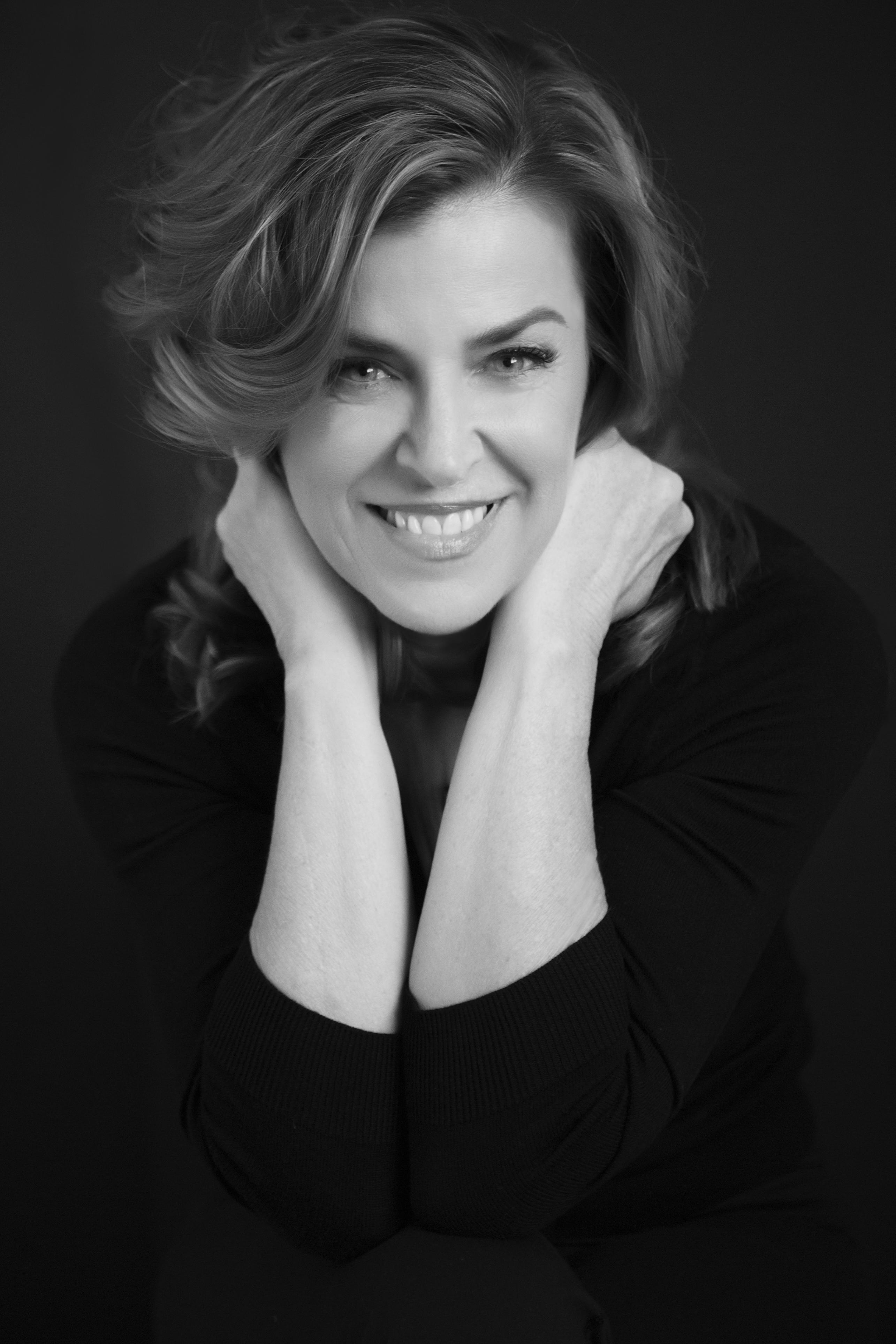 Janine Shepherd is an Australian author, aerobatics pilot and former Olympic cross-country skier.